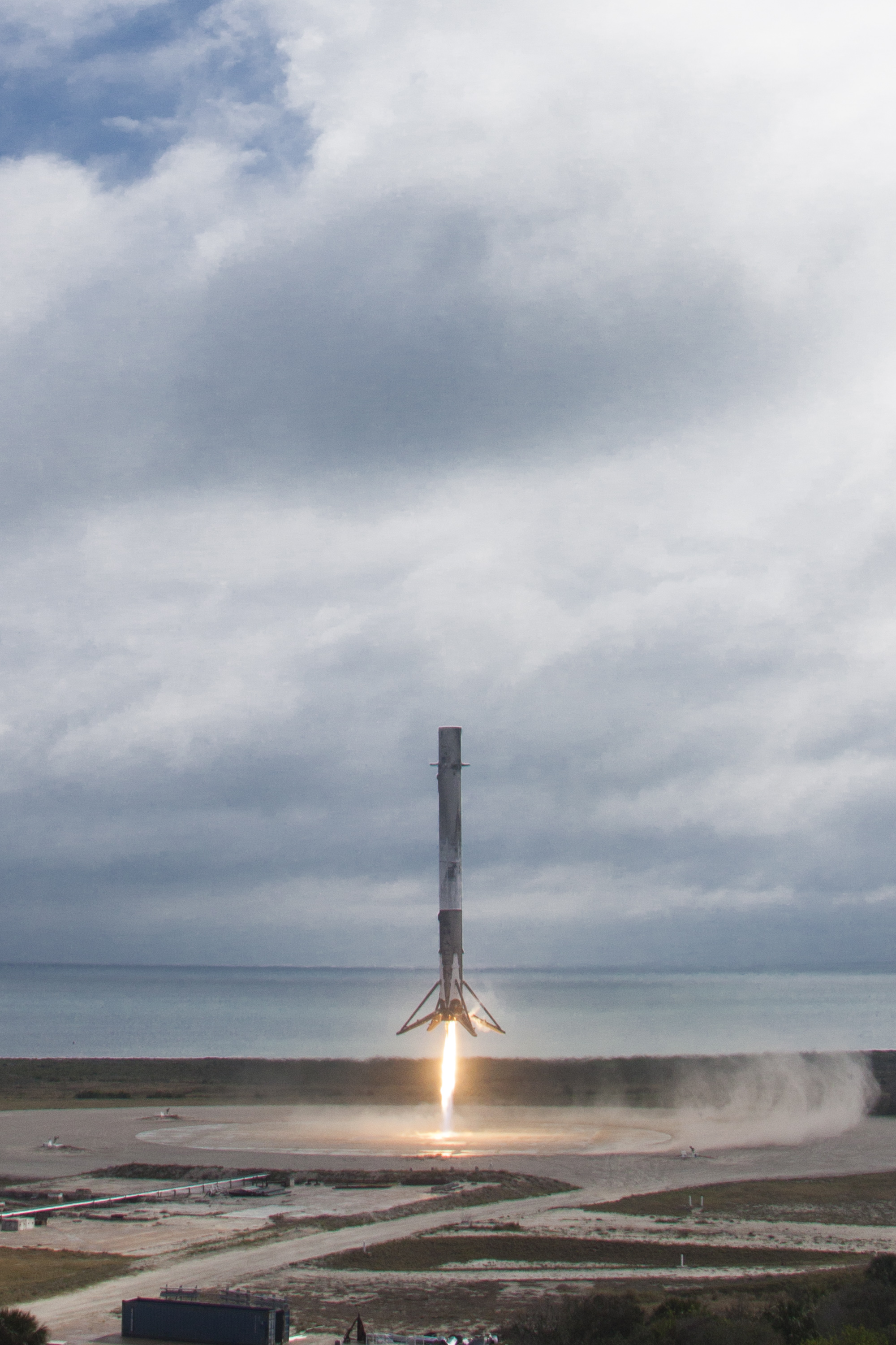 Falcon 9 first stage lands on LZ-1